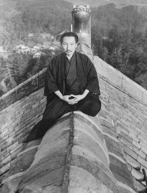 Ogawa Seiyo sitting on the roof of the Daibutsuden at Todaiji